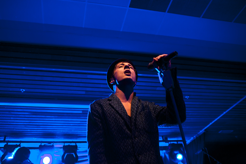 Daniel Adams-Ray in Södertäje, February 2011.